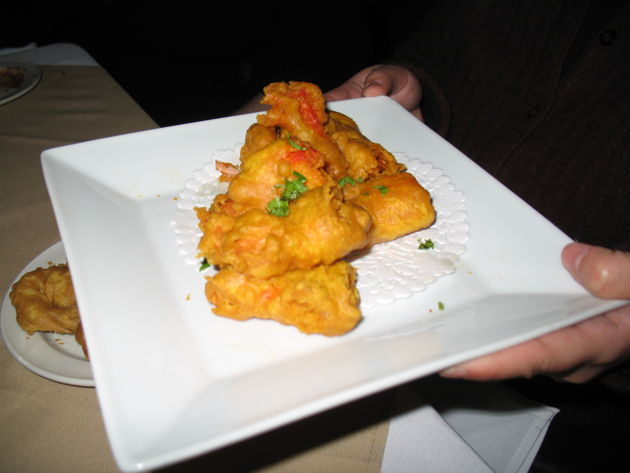 "Deep fried market fish in chef's special batter." The fish appeared to be salmon, a change from the usual pollack fish pakoras I've had elsewhere. Bomaby Masala, January 4, 2008.